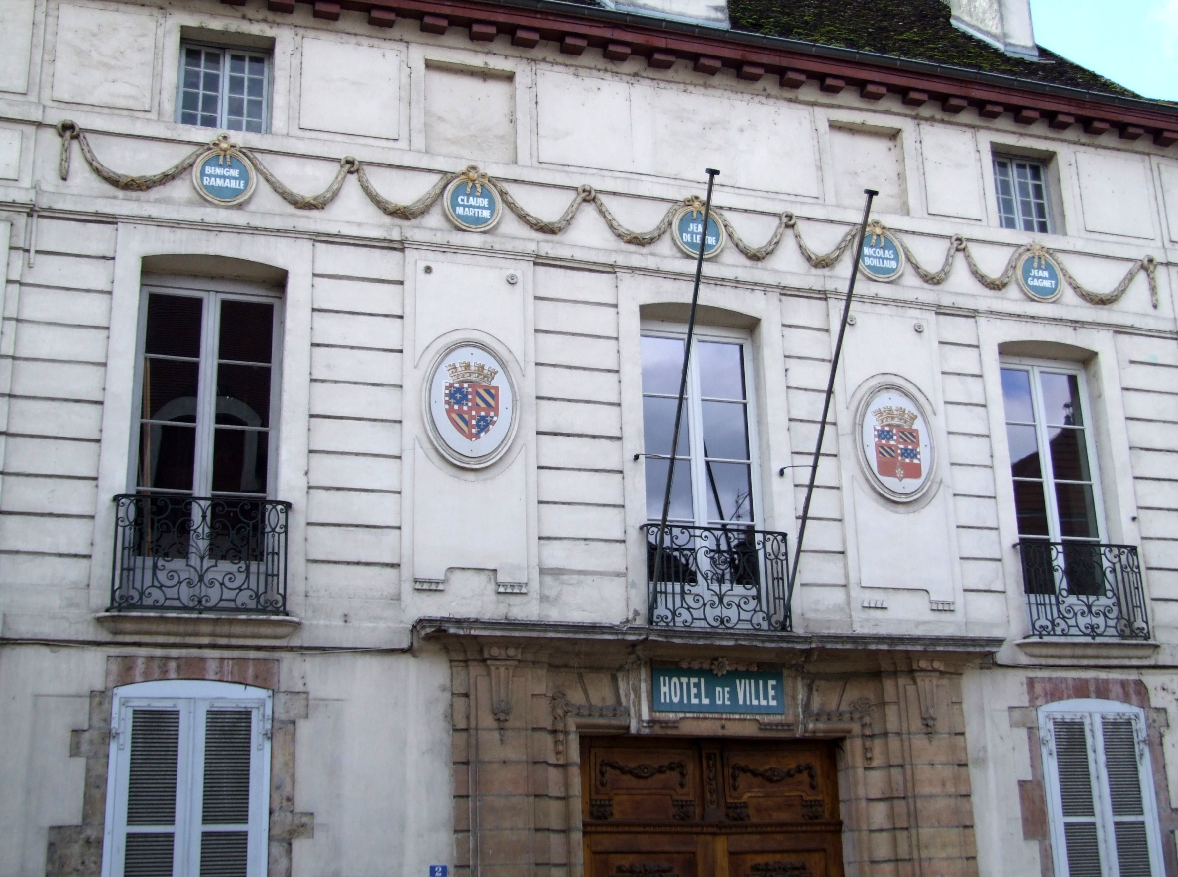 Saint-Jean de Losne, Burgundy, FRANCE